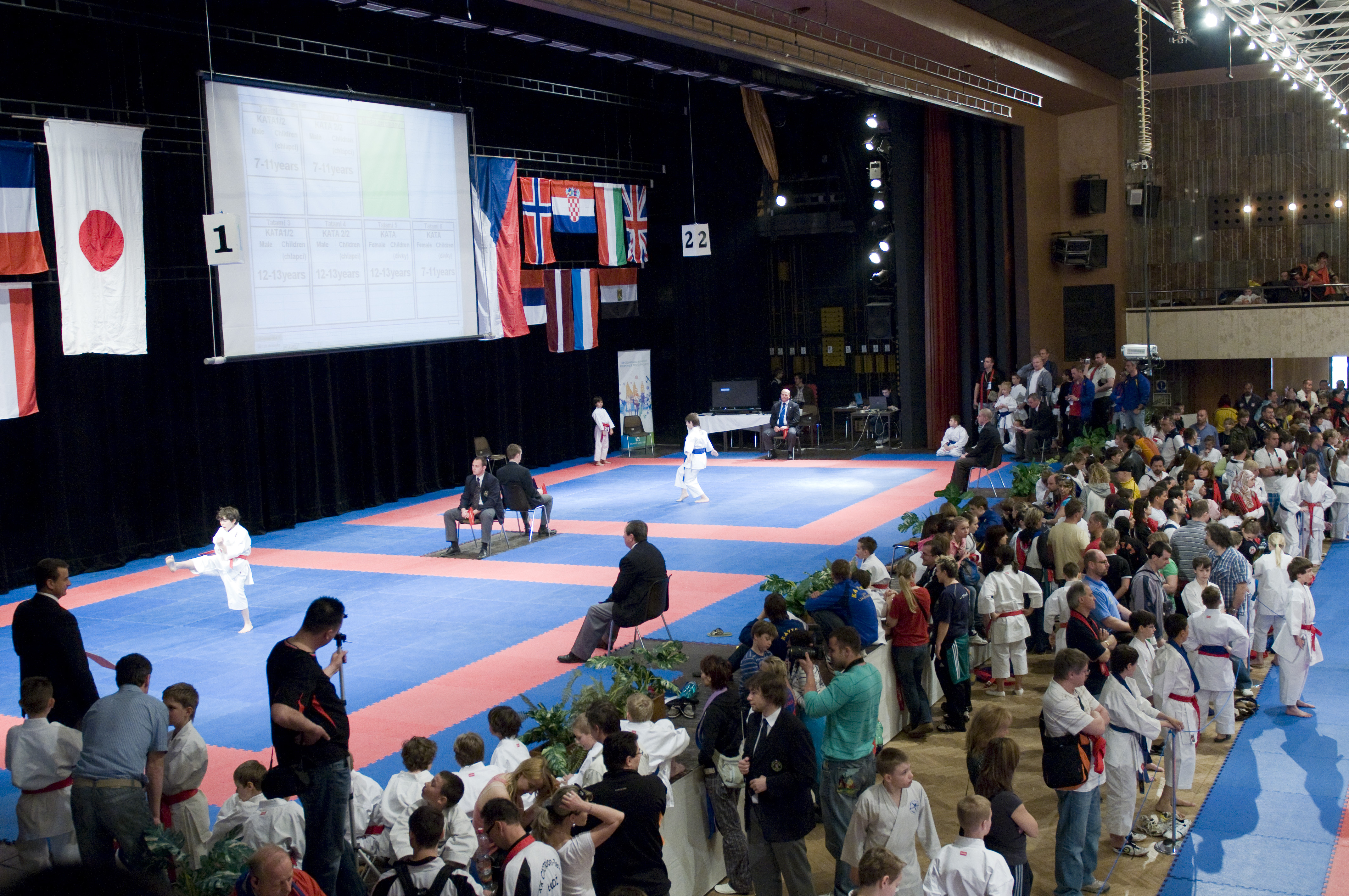 foto of Grand Prix Hradec Králové